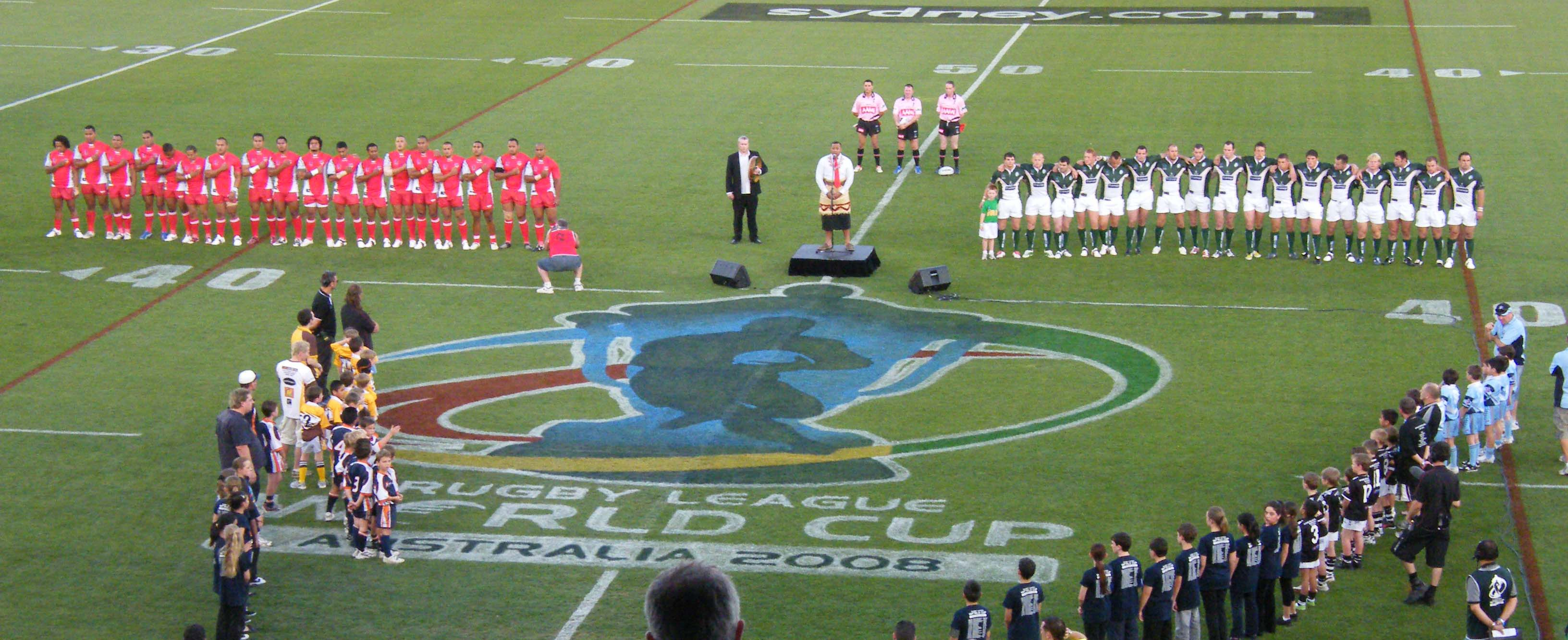 Tonga and Ireland rugby league teams line up for their National Anthems. Parramatta Stadium RLWC 2008.